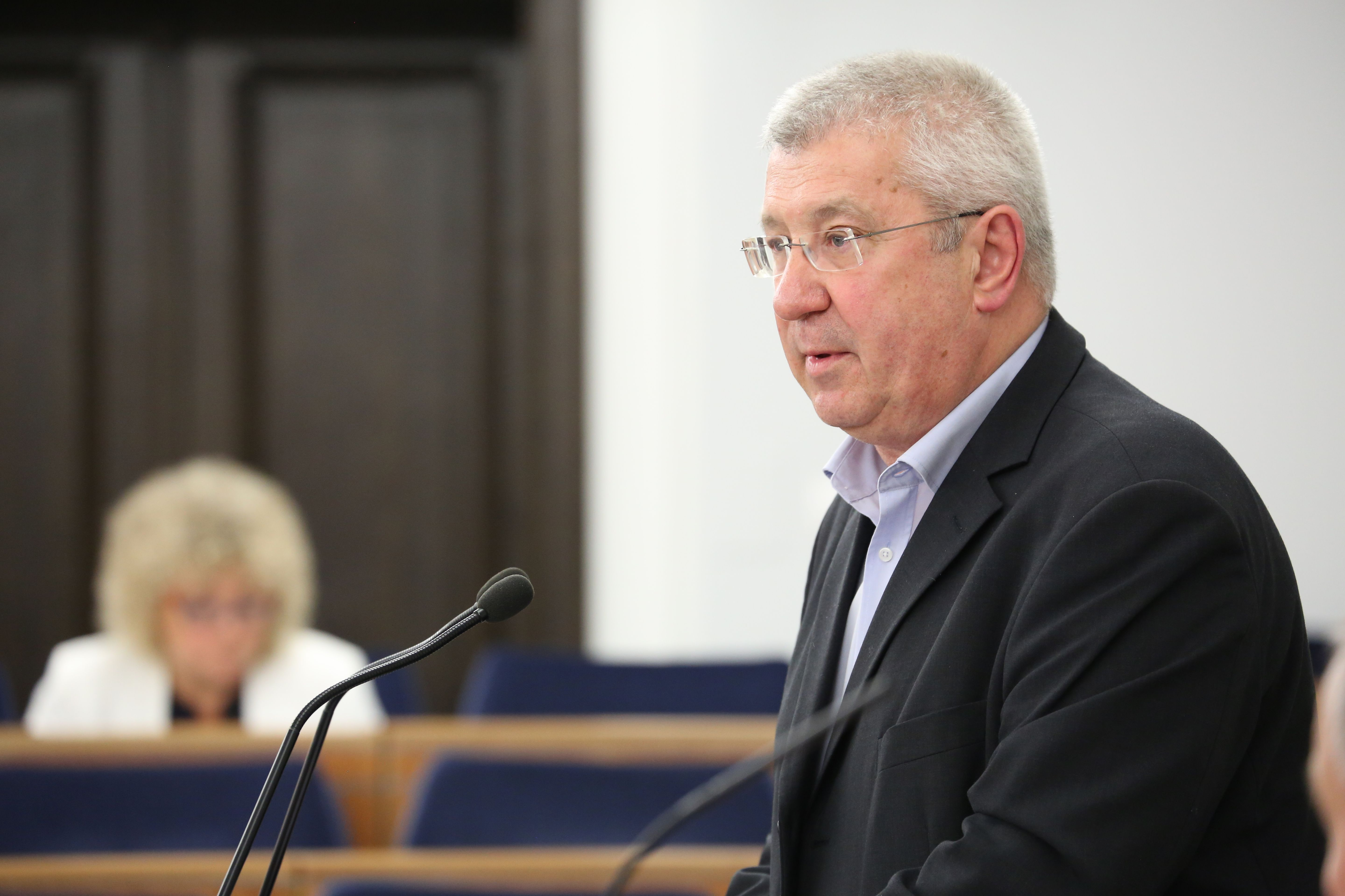 President of the National Broadcasting Council Jan Dworak during 77th sitting of the Polish Senate